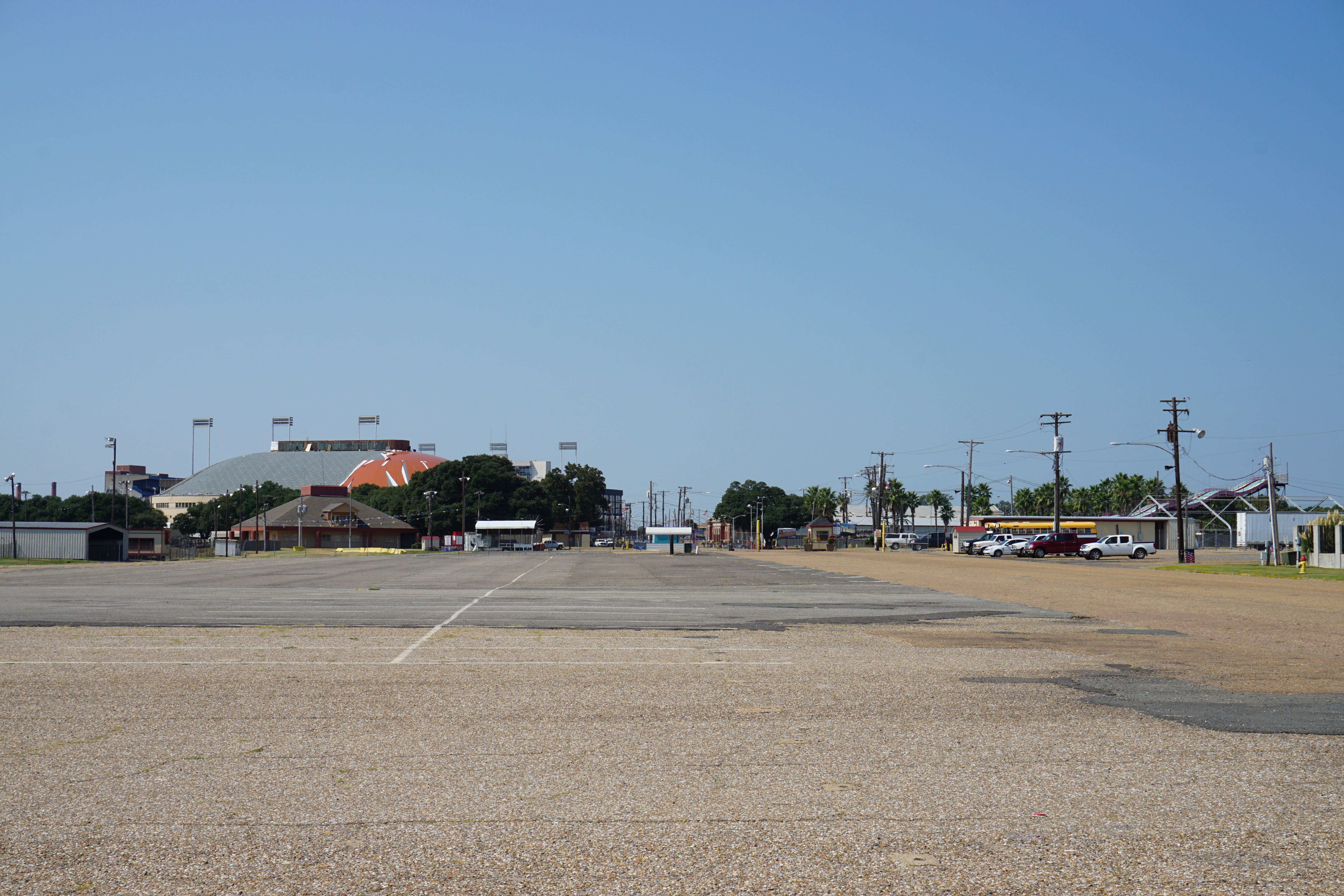 The Louisiana State Fair Grounds in Shreveport, Louisiana (United States).